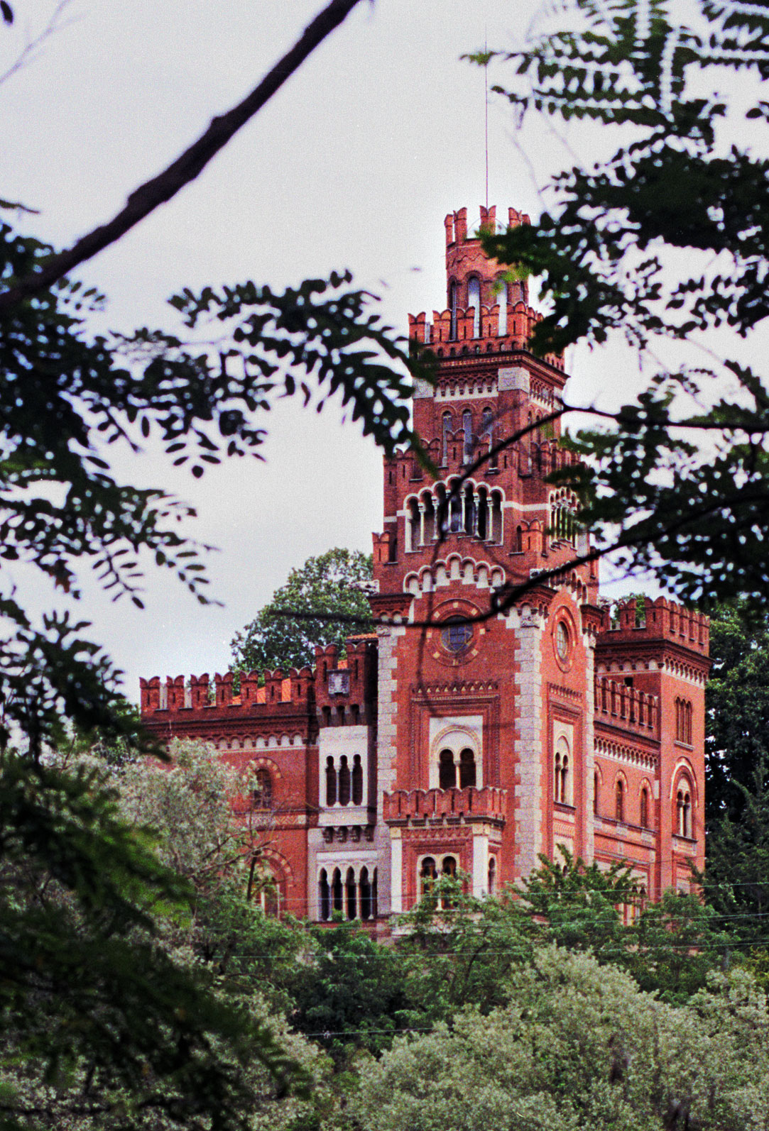 The Crespi residence, or "castle", at the industrial model village of Crespi d’Adda pictured from across the river Adda